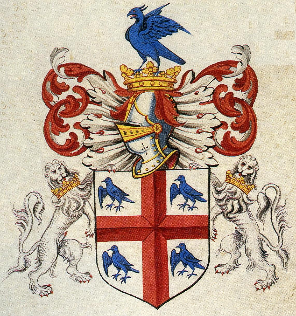 An image of the coat of arms of the College of Arms from a 1595 manuscript called Lant's Roll, created by Thomas Lant